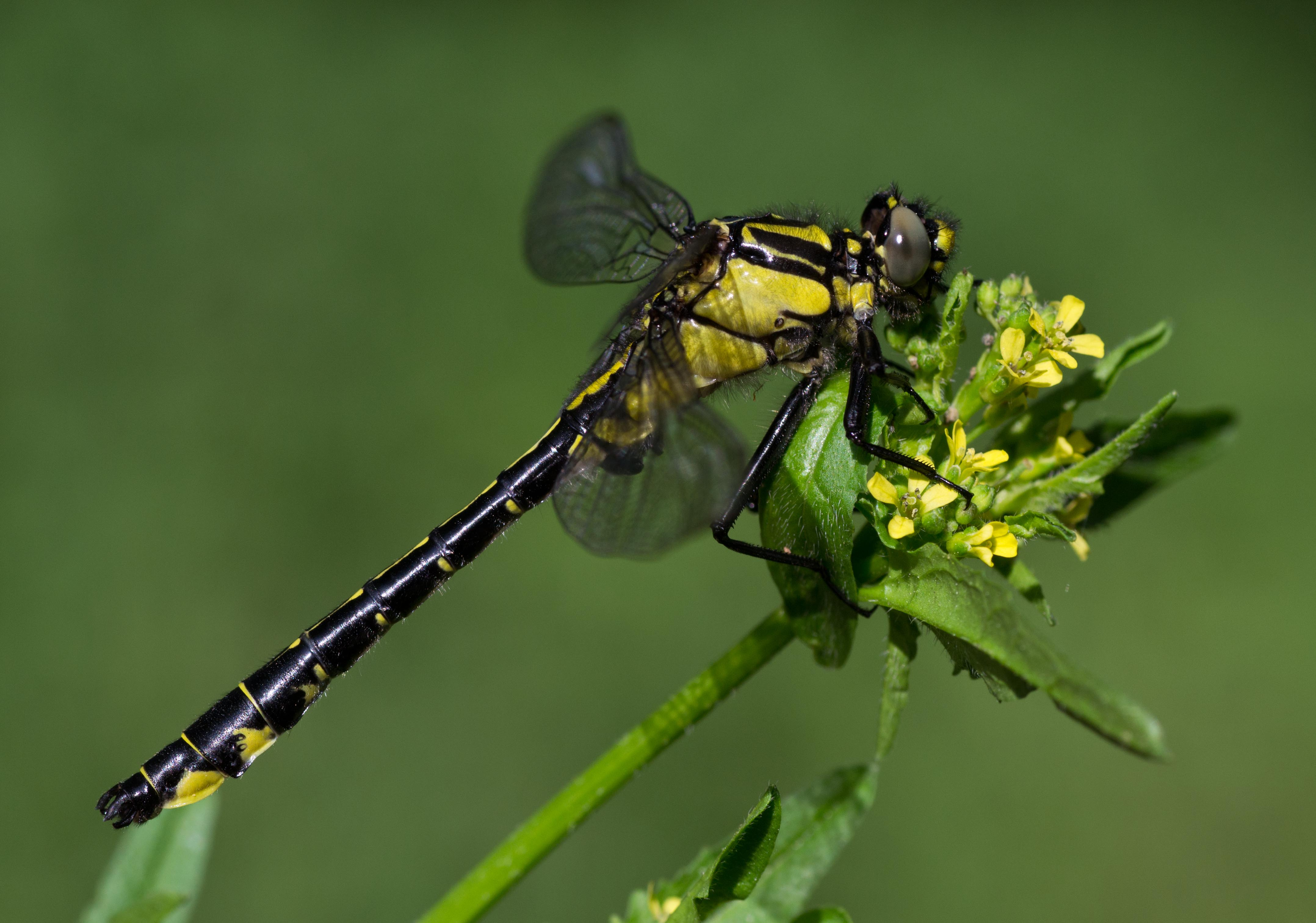 Common Clubtail